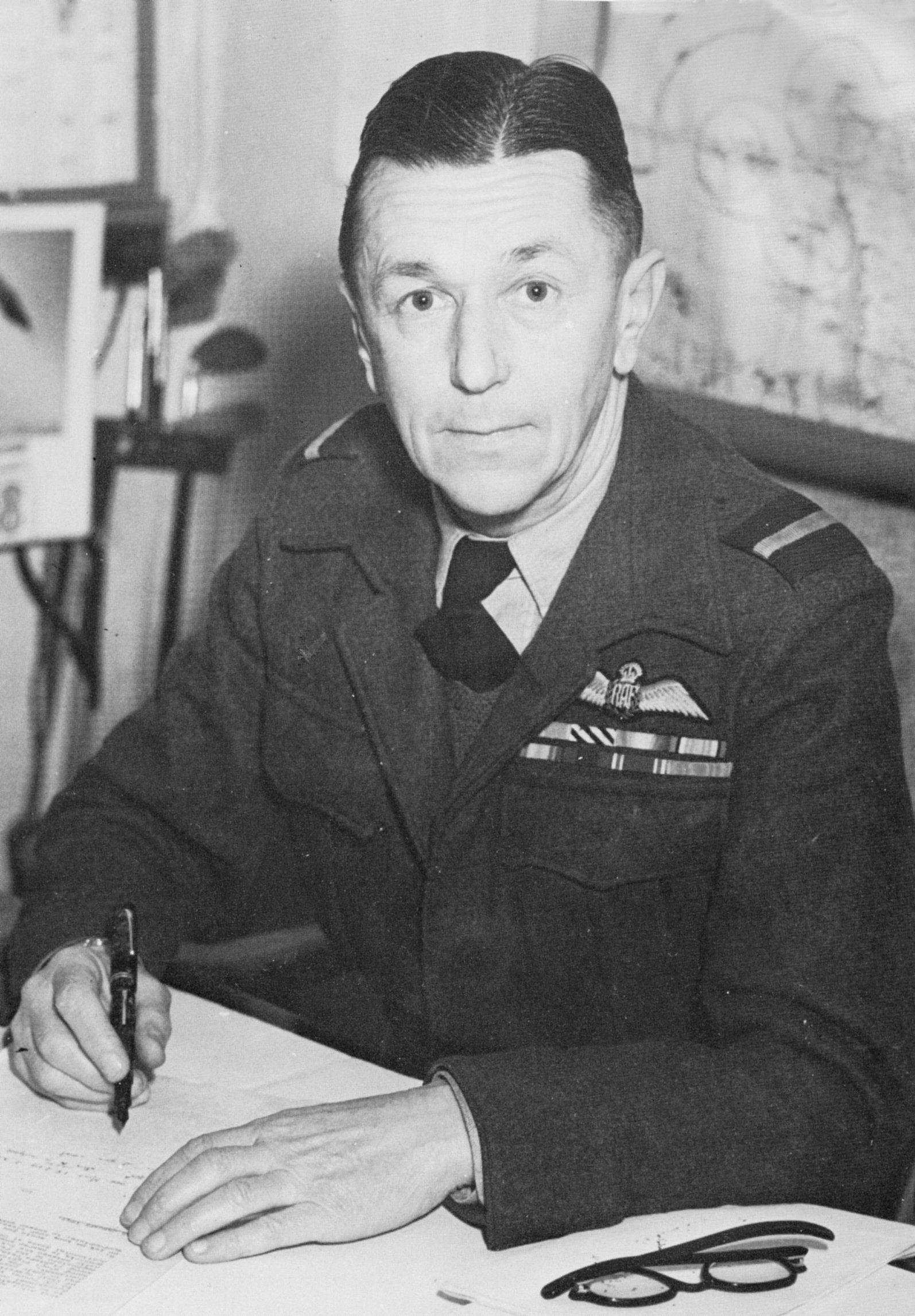 Photograph of Air Commodore Cecil Bouchier seated at his desk.